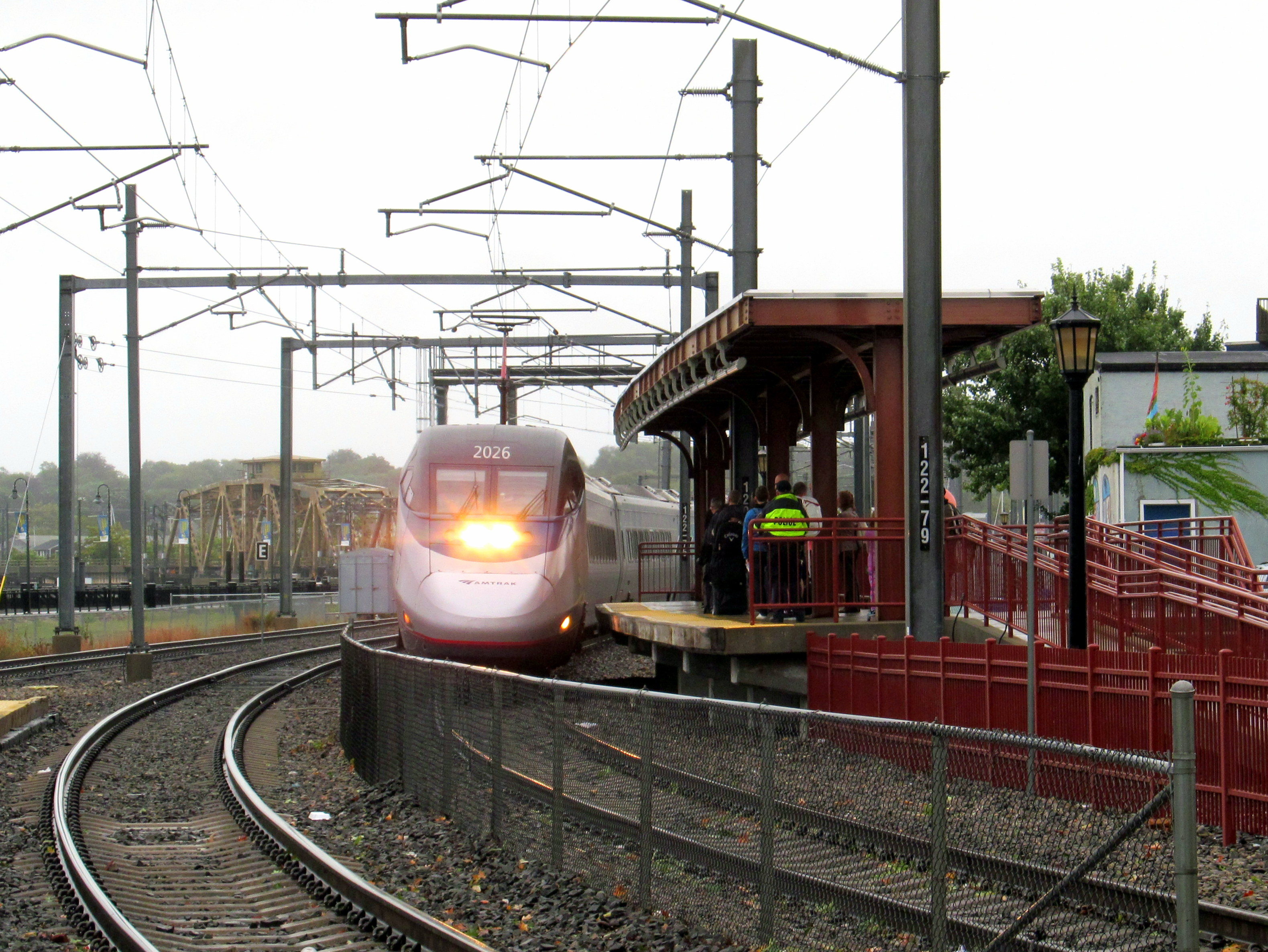 Northbound Acela Express using the southbound high-level platform at New London Union Station in September 2016